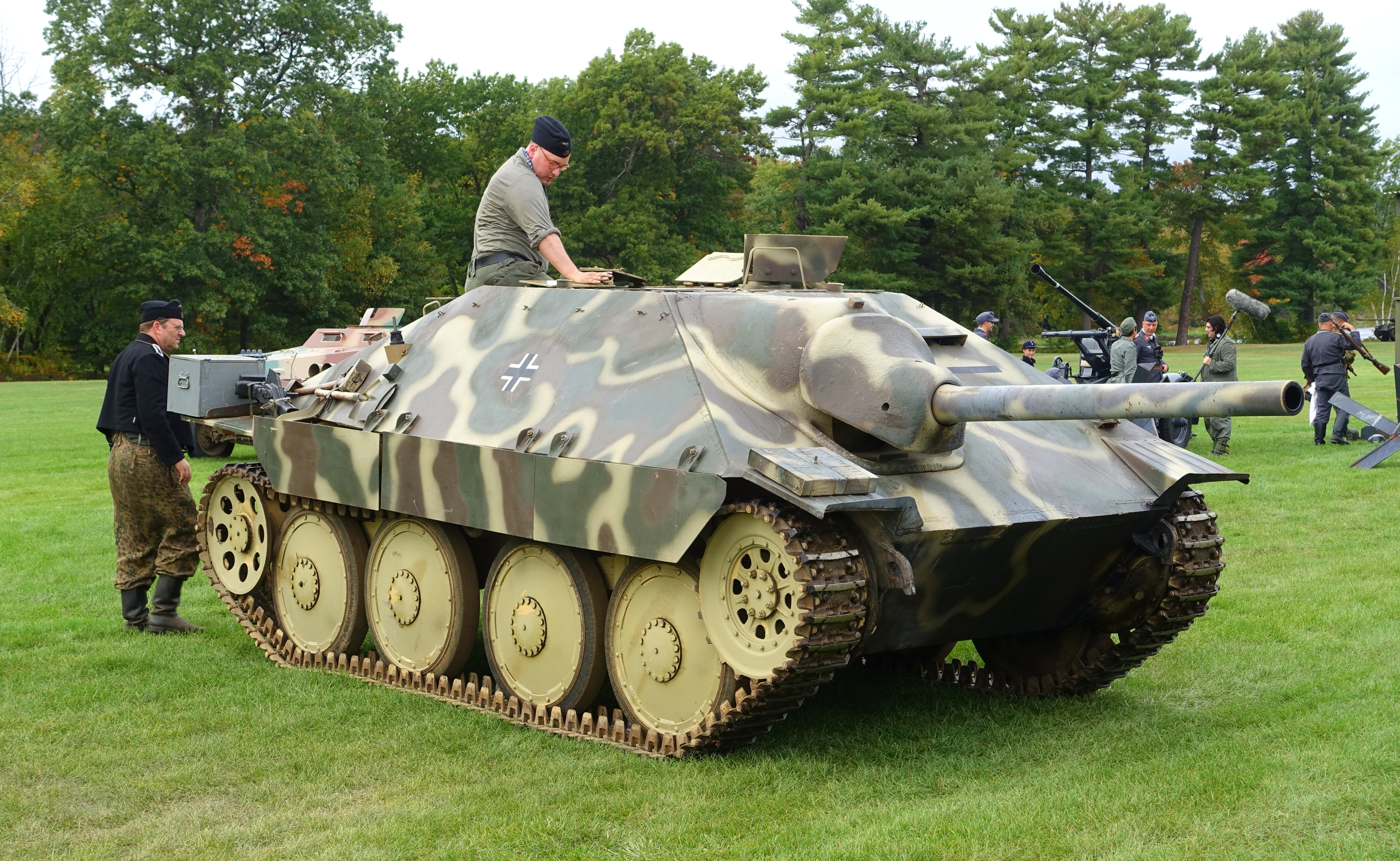 Battle for the Airfield, 2017 - Collings Foundation - Stow / Hudson, Massachusetts, USA.